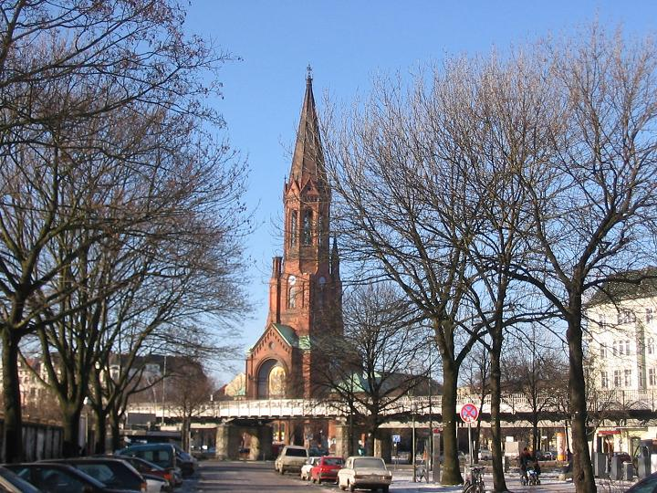 Emmaus church at Lausitzer Platz, Berlin-Kreuzberg